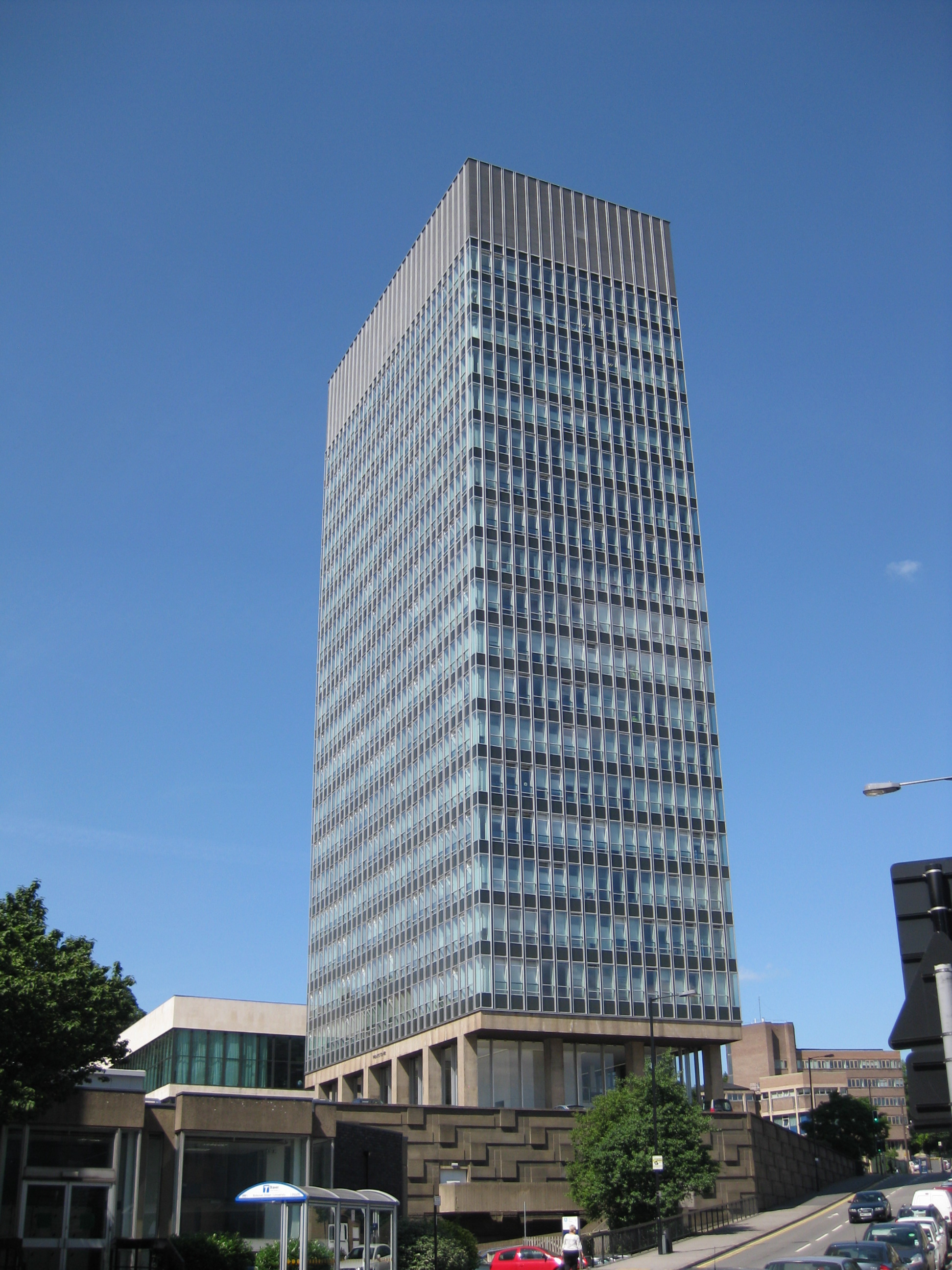 The Arts Tower, University of Sheffield. Viewed from almost due East on Bolsover Street..